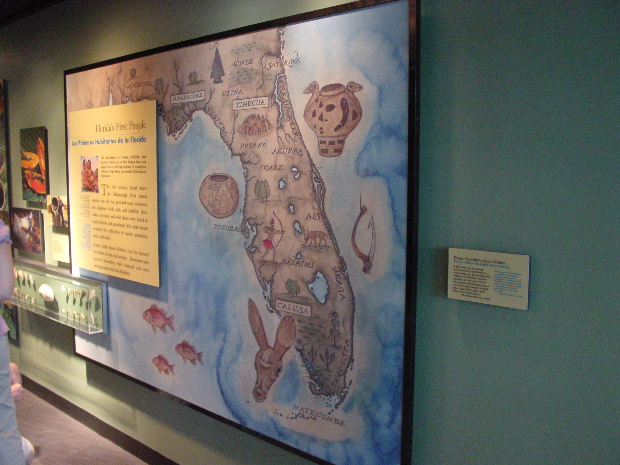 Part of the Florida's First People display at the Tampa Bay History Center in Tampa, Florida.